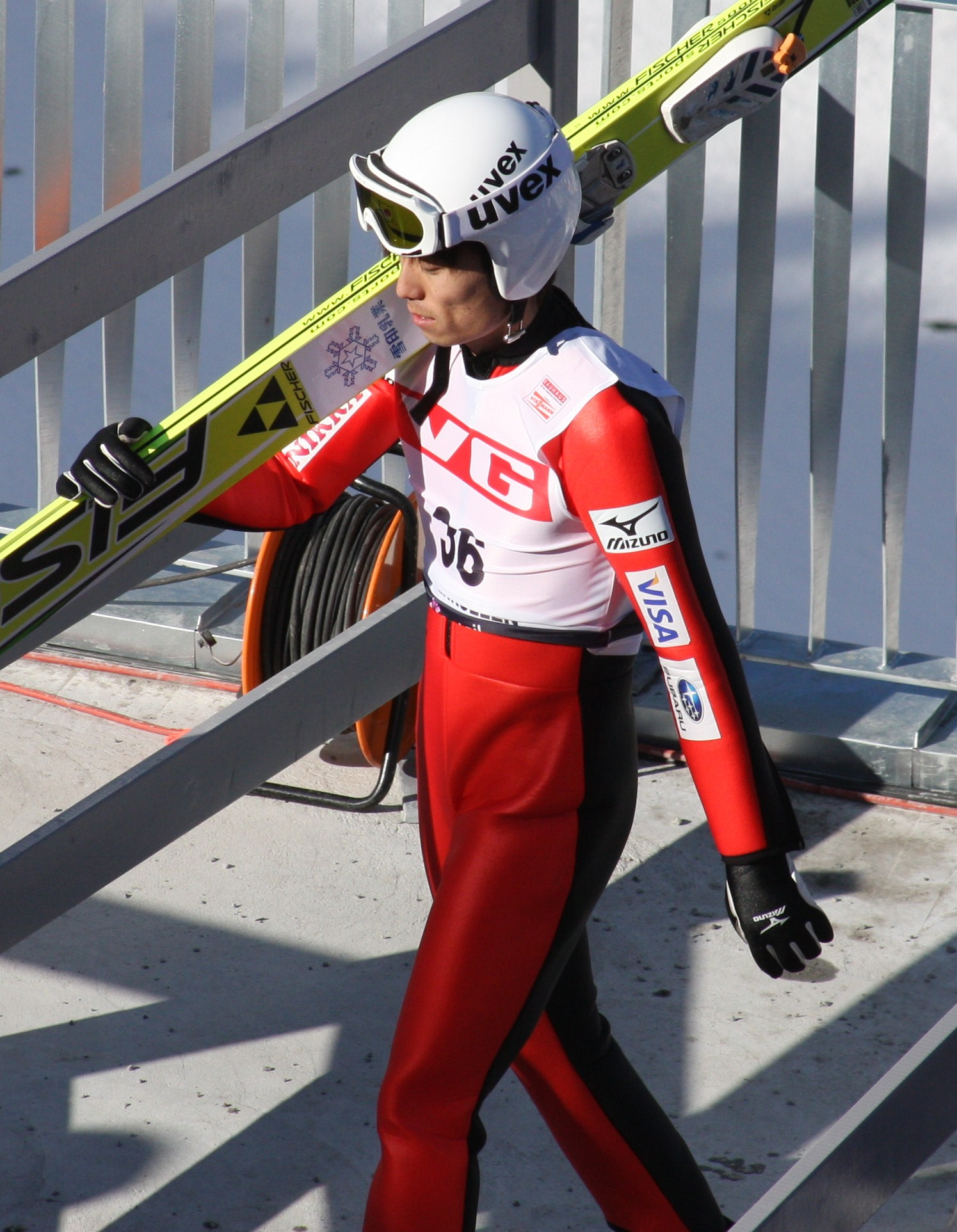 Daiki Ito (JPN) in WWC Oslo, Holmenkollen, march 2010